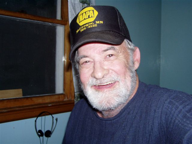 Whistleblower Gerald W. Brown. Mr. Brown exposed deficiencies in Firestopping and fireproofing measures used in nuclear construction in the United States and Canada. English Wikipedia Page